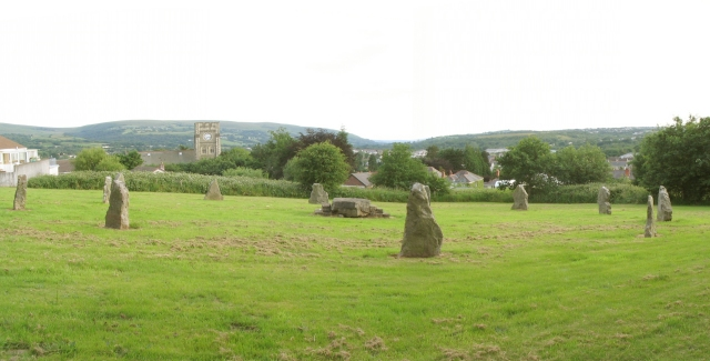 The Gorsedd stone circle, Ammanford. This is a relatively modern construction only about a century old. The Gorsedd stone circle is where the Eisteddfod was held, whenever it came to town. It lies on a hill near the middle of town, just higher up than All Saints church. The small patch of grass it occupies is now surrounded by new houses.